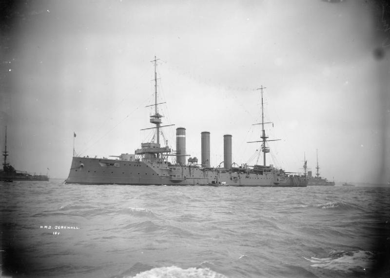 IWM caption : A portrait of the Royal Navy Monmouth Class Armoured Cruiser HMS CORNWALL at sea.